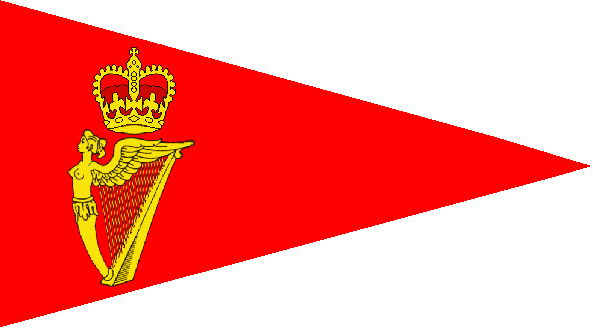 Yacht club flag